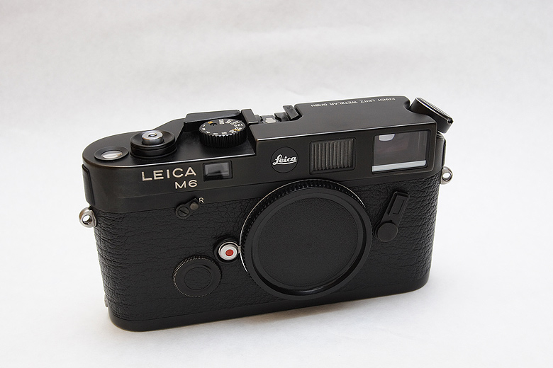 Leica M6 "classic", early production model from Wetzlar. Note that the original red "Leitz" dot has been replaced by a black LHSA dot.